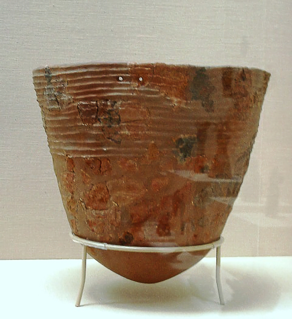 Incipient Jomon pottery from Hinamiyama site. At Yokohama-shi, Kanagawa. Lent by Yokohama City Board of Education. Kanagawa